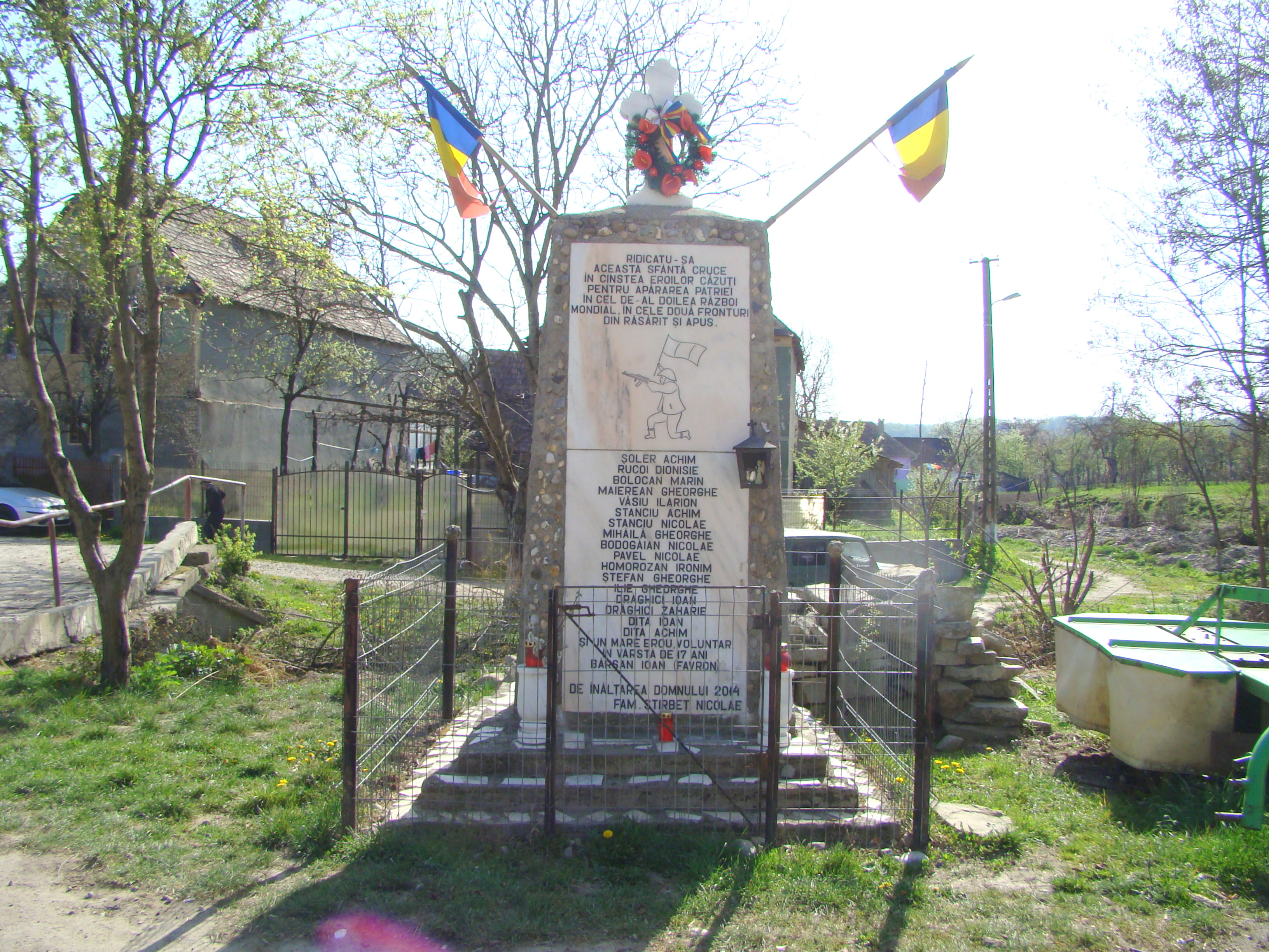 World War memorial in Feleag, Mureș county, Romania